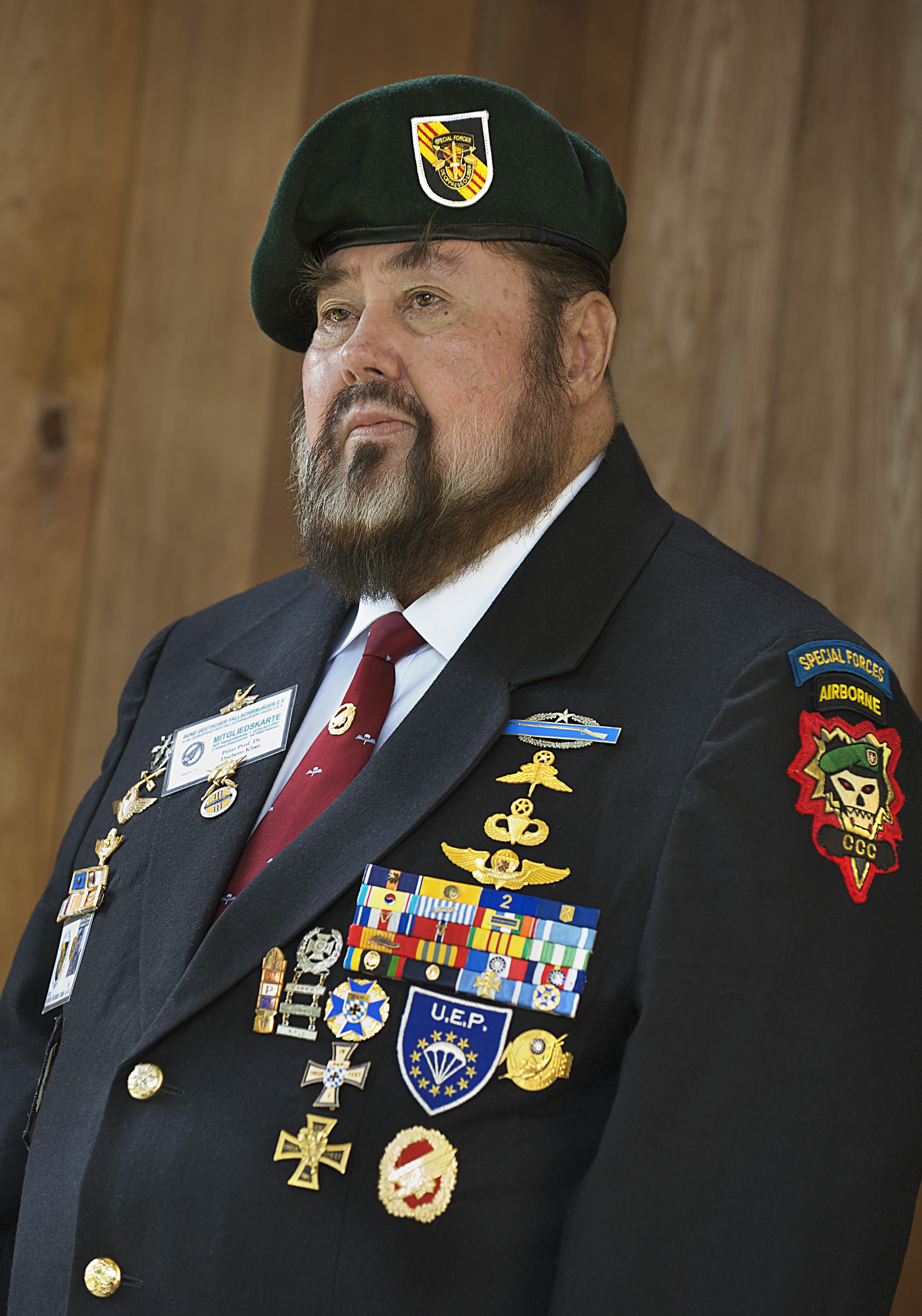 Photograph of Prince Dschero Khan in military uniform with decorations